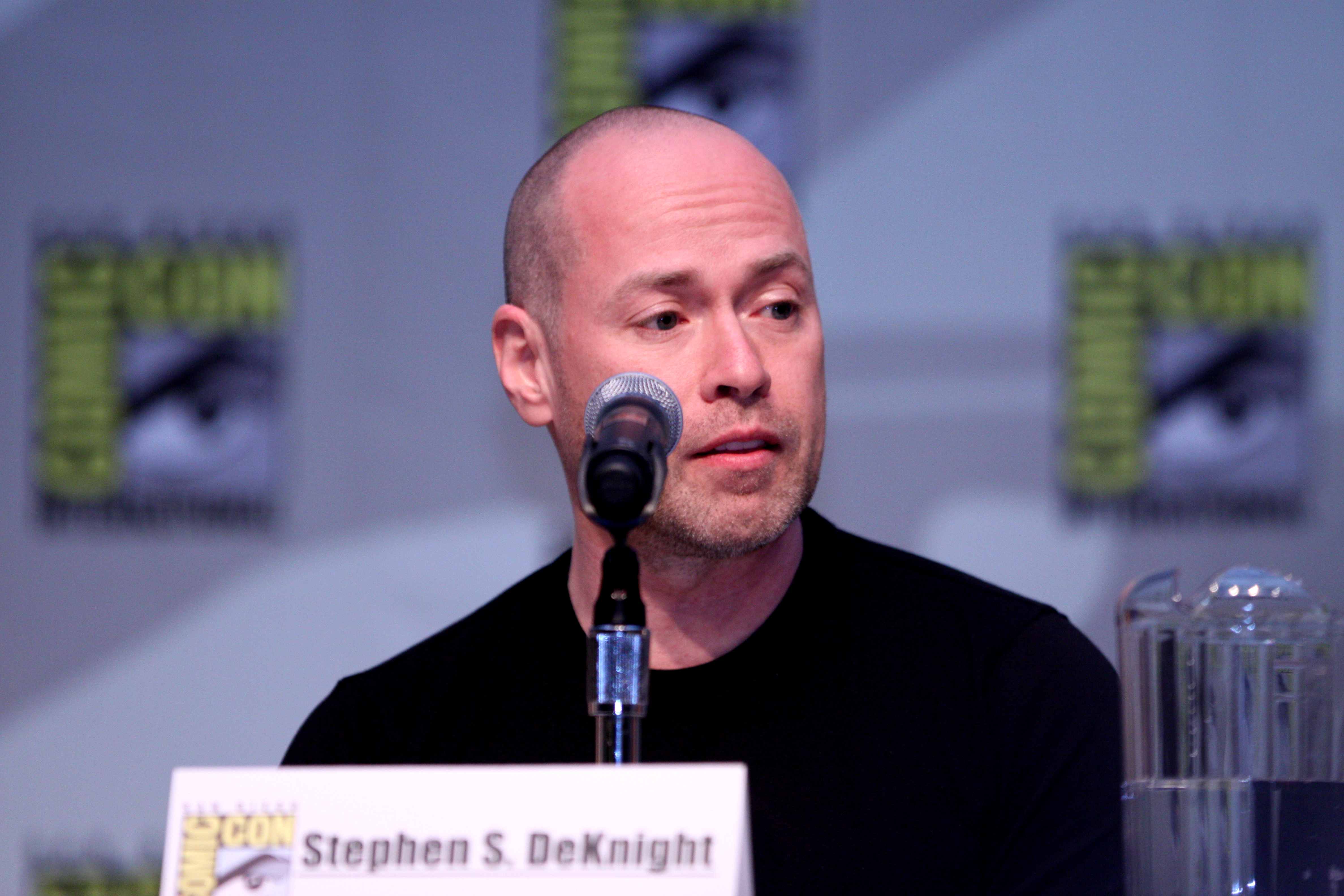 Stephen S. DeKnight on the Spartacus: Blood and Sand panel at the 2010 San Diego Comic Con in San Diego, California.